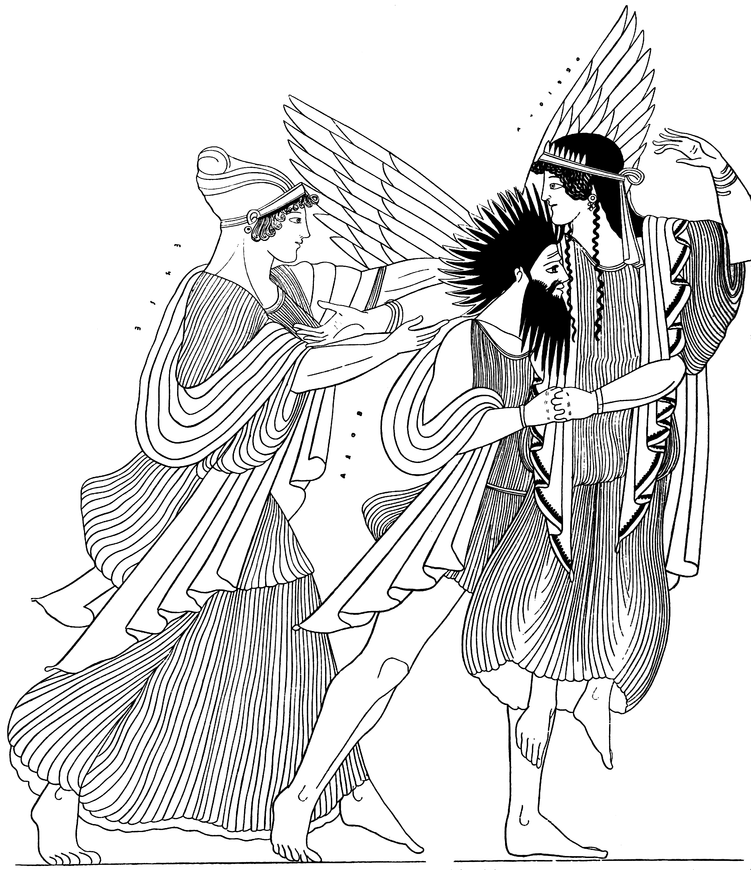 Boreas abducting Oreithyia; Herse (left) try to help her sister. Redrawing of a attic red-figure pointed amphora, 470–460 BC.